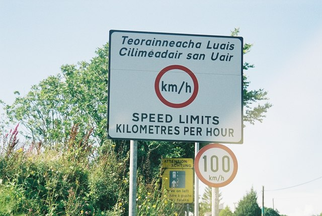 Put your foot down! The speed limit goes up from 60 to 100 — however, the unit goes from mph to km/h — as we cross the border from the UK to the Republic of Ireland. More interestingly, in the background we are reminded to drive on the left even though the two nations are consistent in this regard. This picture is unashamedly taken through the windscreen!